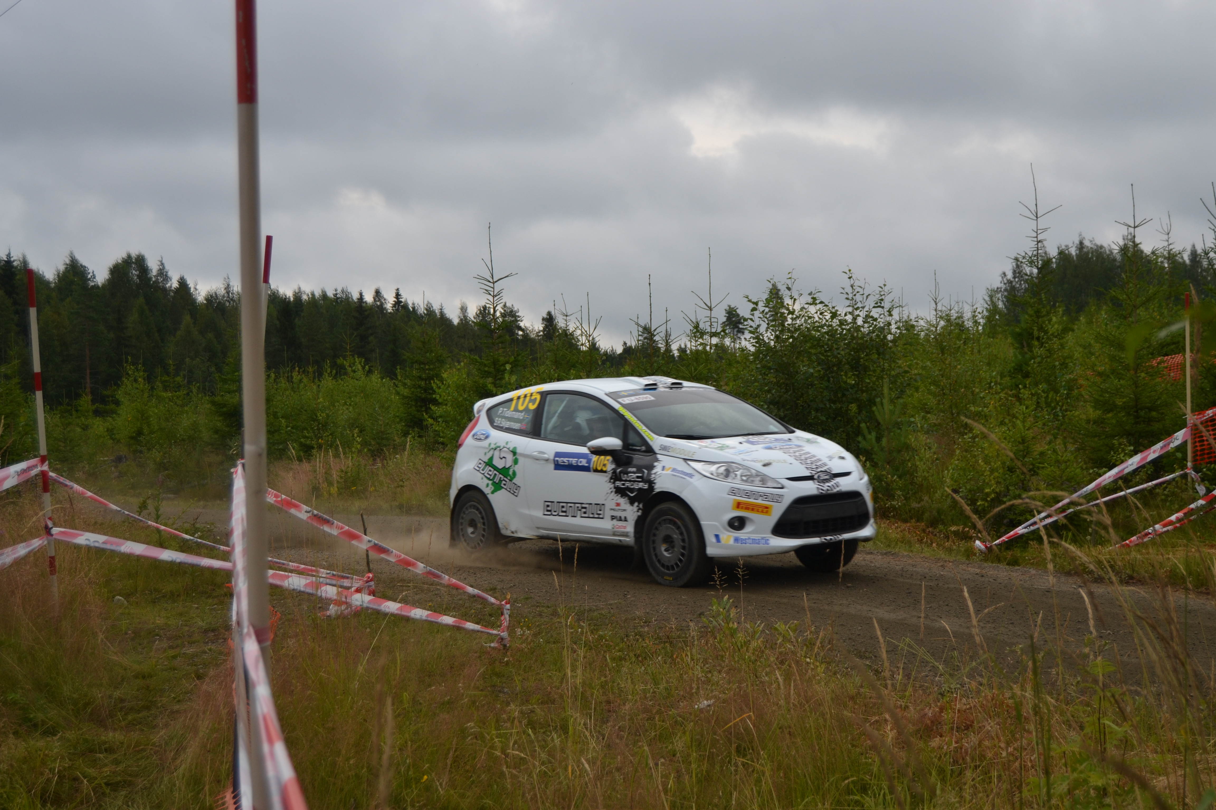 Pontus Tidemand at 1st Surkee stage at 2012 Rally Finland